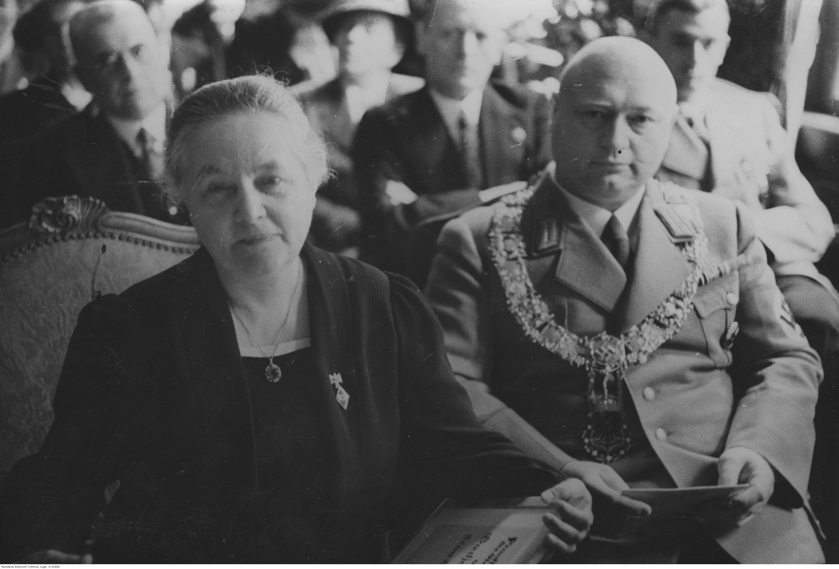 German writer Agnes Miegel, winner of the "Goethe Prize" in the company of the mayor of Frankfurt Friedrich Krebs.